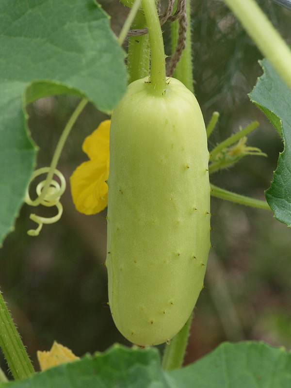 Almost ready to pick.